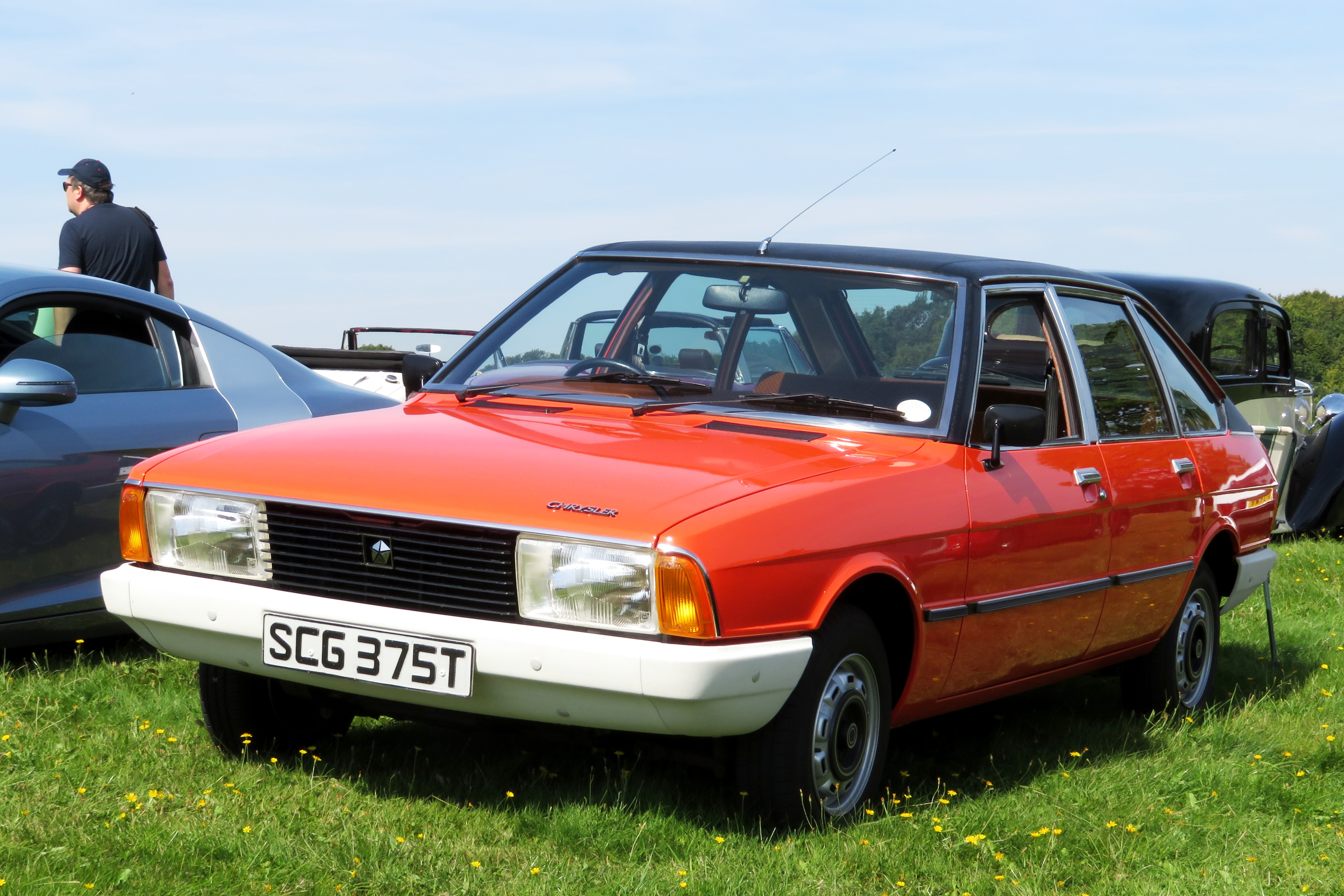 Chrysler Alpine (UK branded Simca 1308) (1979)